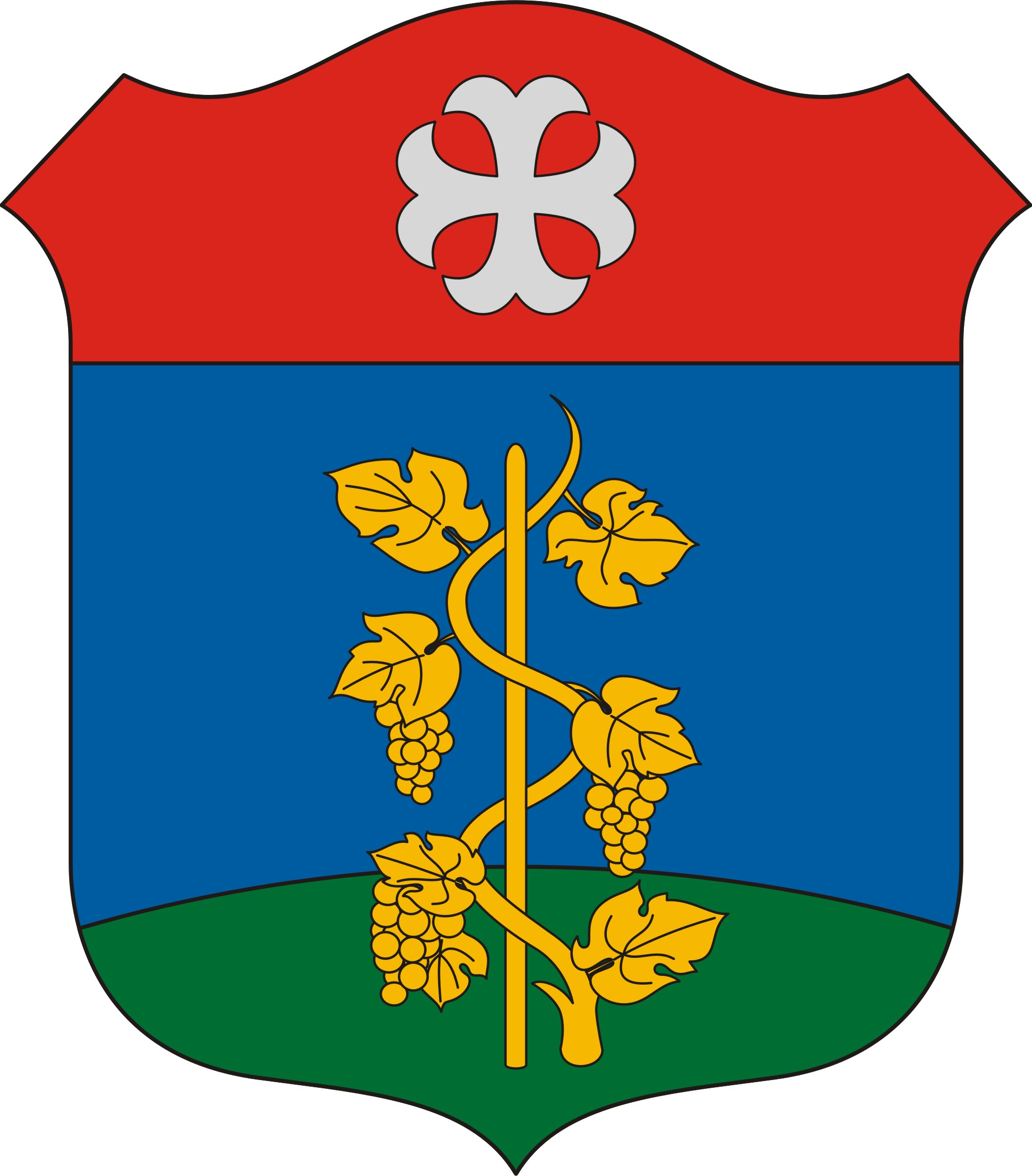 Coat of arms of Kapospula, Hungary